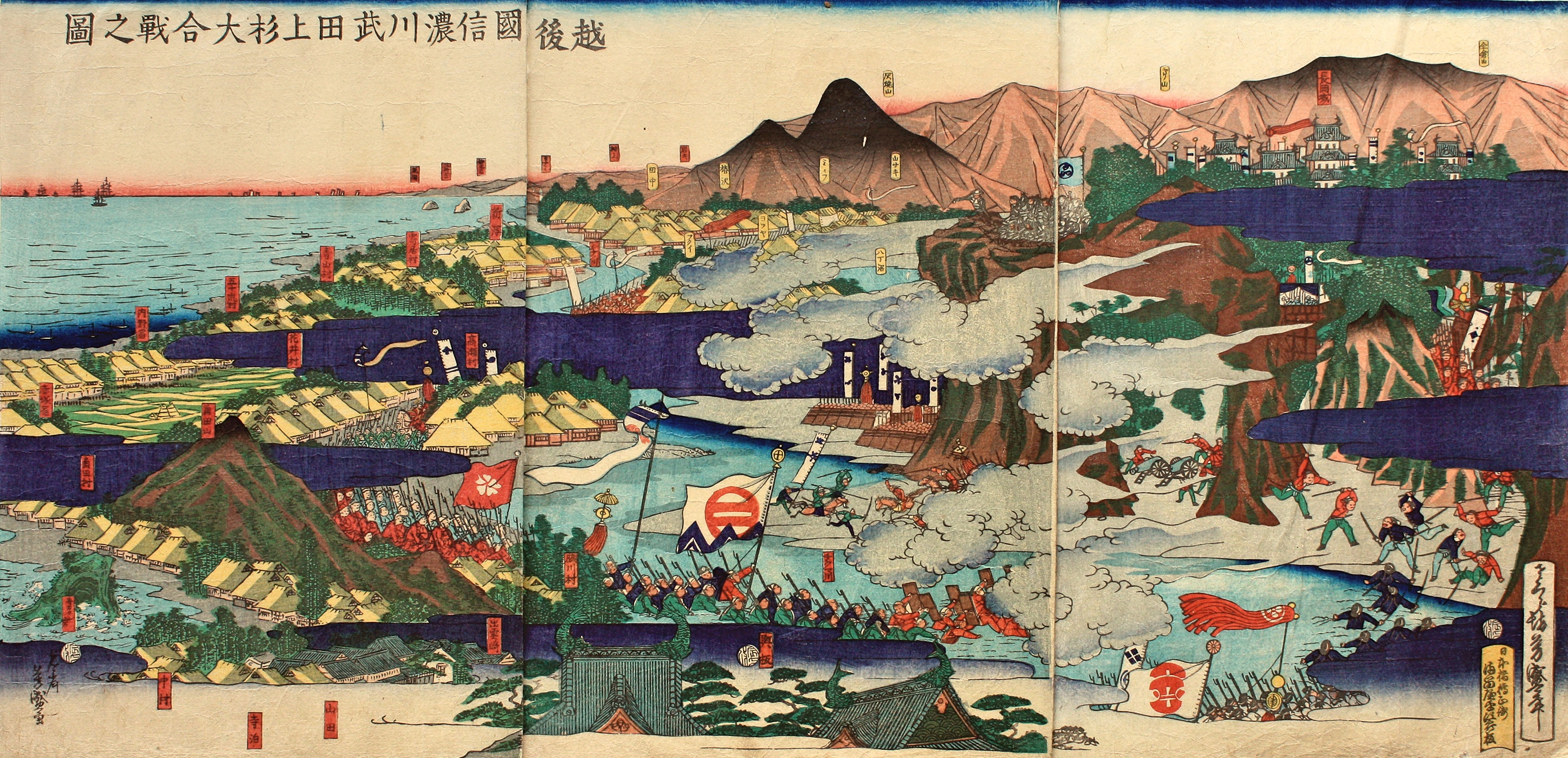 Ukiyoe "Echigo no kuni Shinanogawa Takeda Uesugi daikassen no zu". The ukiyoe which drew the Boshin War (Battle of Hokuetsu). The title is "Echigo no kuni Shinanogawa Takeda Uesugi daikassen no zu", but actual condition is a picture about the Battle of Hokuetsu.